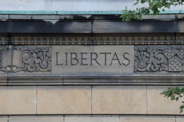 Relief detail "Liberty", Grand Lodge of Quebec